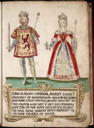 King Malcolm III and his wife Margaret of Wessex